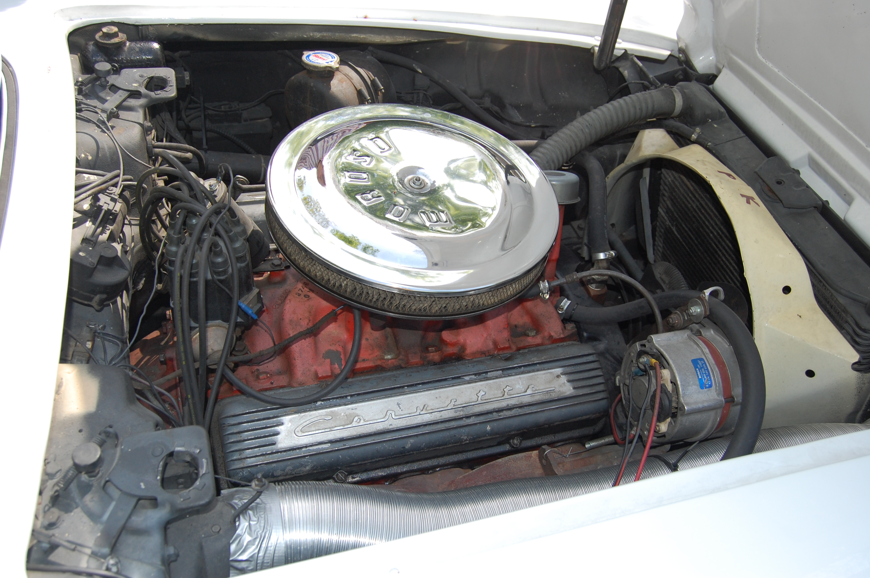 Engine of a Chevrolet Corvette, presumably a 1957-1961 289ci.